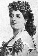 French actress and singer Lise Tautin (1834-1874) as Eurydice in Jacques Offenbach's "Orphée aux enfers" ("Orpheus in the Underworld")